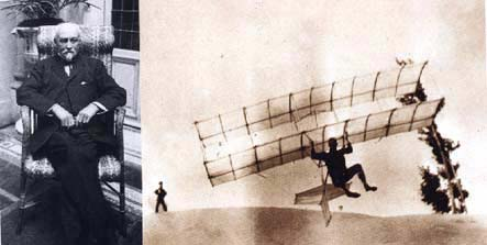 Octave Chanute's 1896 biplane hang glider flown in the Chicago area.